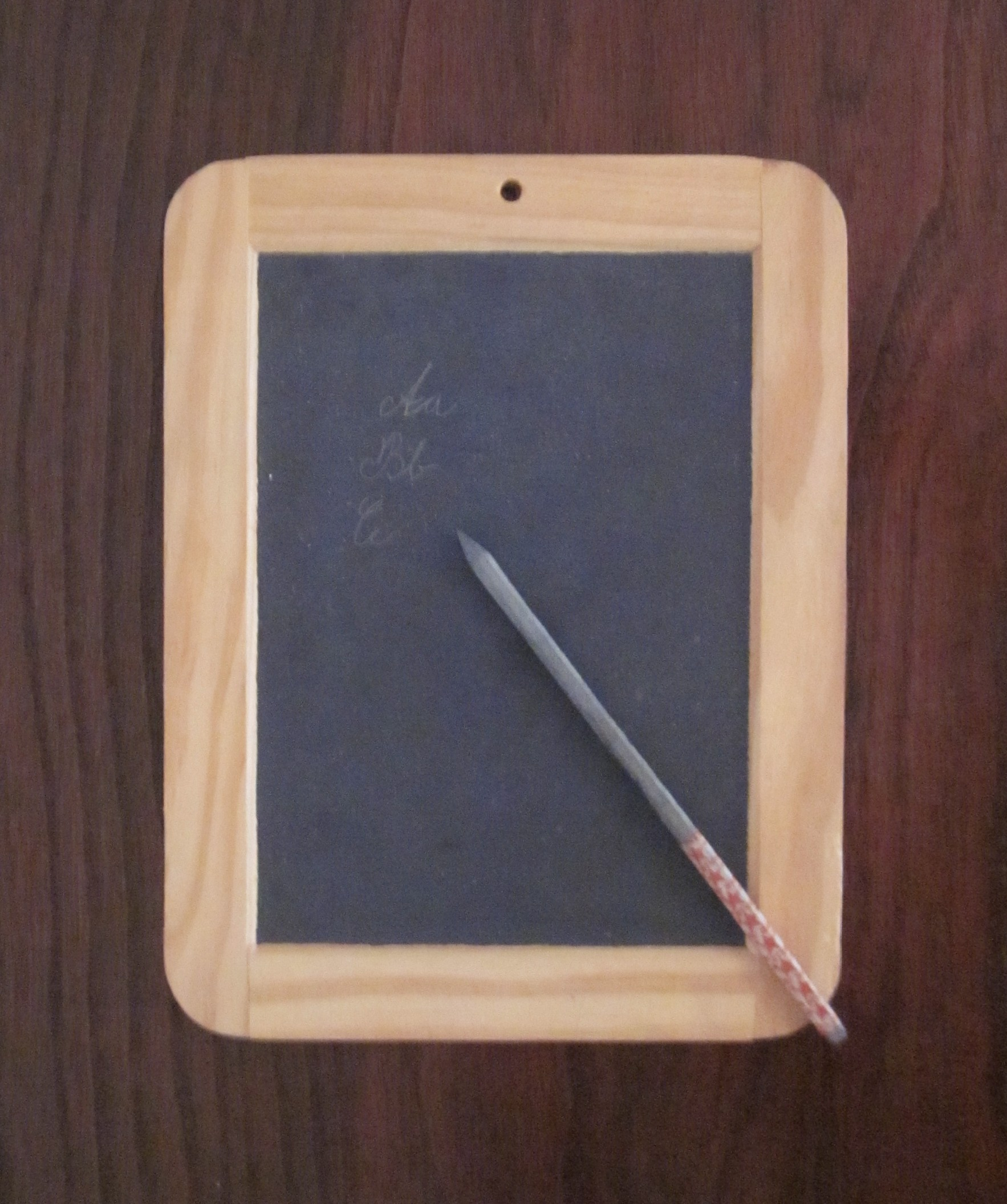 Writing slate, purchased in 2011 in the Portuguese city Oporto.